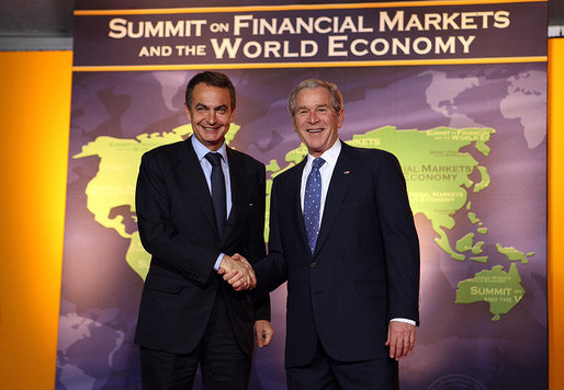 President George W. Bush welcomes Spain's President Jose Luis Rodriguez Zapatero, a representative of the European Union, to the Summit on Financial Markets and the World Economy Saturday, November 15, 2008, at the National Museum Building in Washington, D.C. White House photo by Chris Greenberg